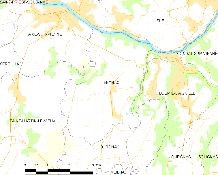 Map of French municipality Beynac